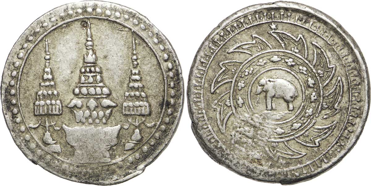 1 Salung (1/4 1 Baht) avec motifs de temple et d'éléphant, la pièce fut frappée en 1869